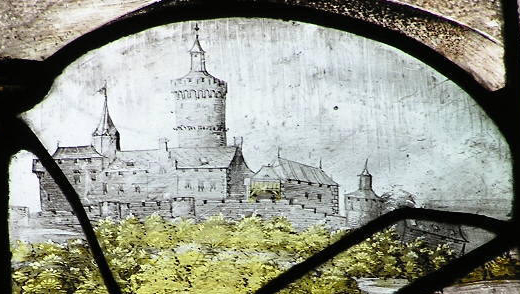 Image of Godesburg castle in Bad Godesberg, Bonn, Germany, on a church window at Kloster Ehrenstein/Wied; according to Potthoff (2009), Die Godesburg - Archäologie und Baugeschichte einer kurkölnischen Burg, this is the only detailed image of Godesburg castle before its destruction and thus an important source for reconstructing what the castle looked like in the 15th century.